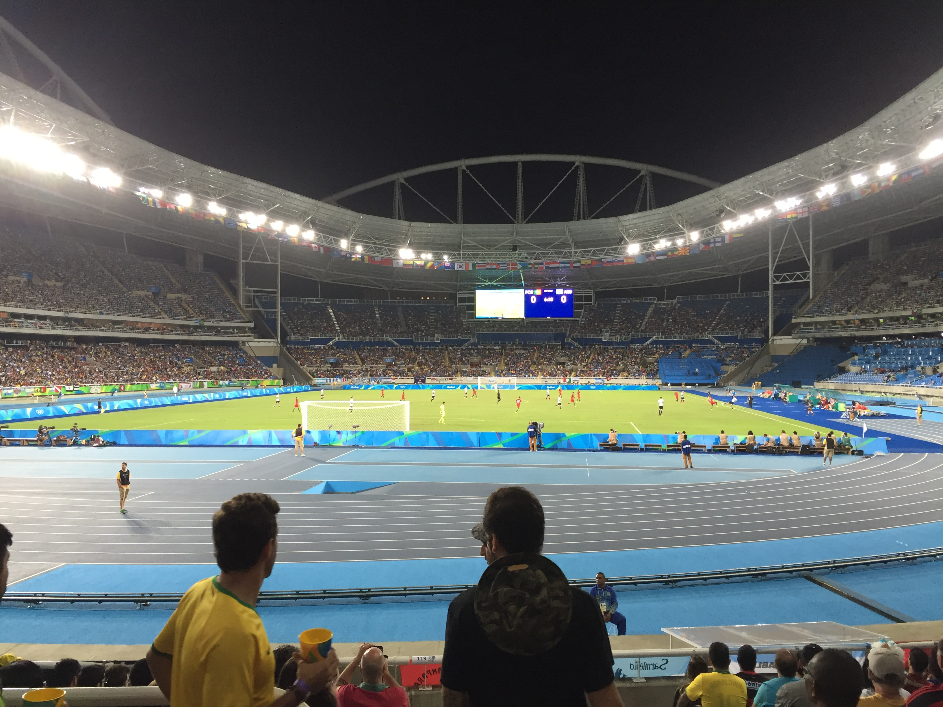 Rio 2016 - Olympic Games Football 4 August: POR-ARG